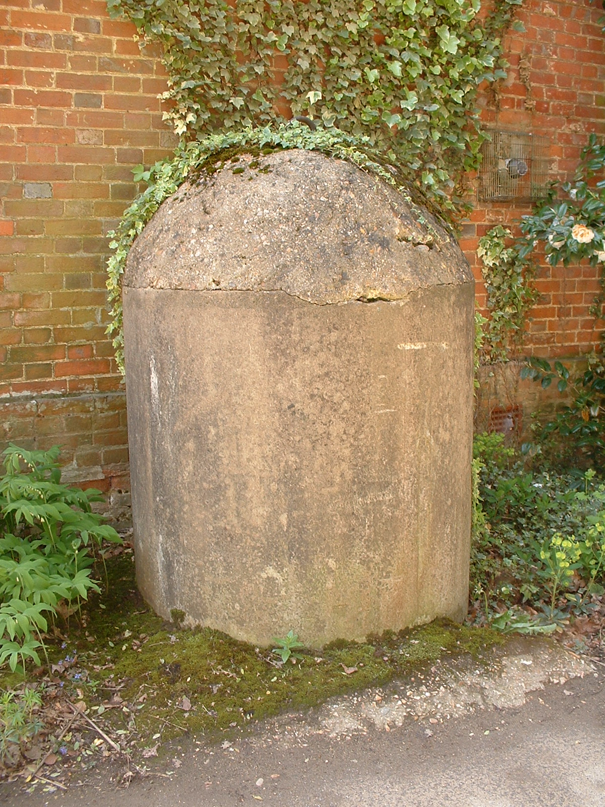 Near other fortifications. Easily accessible from footpath. OS reference SU862465 Photographed on 01-May-06.